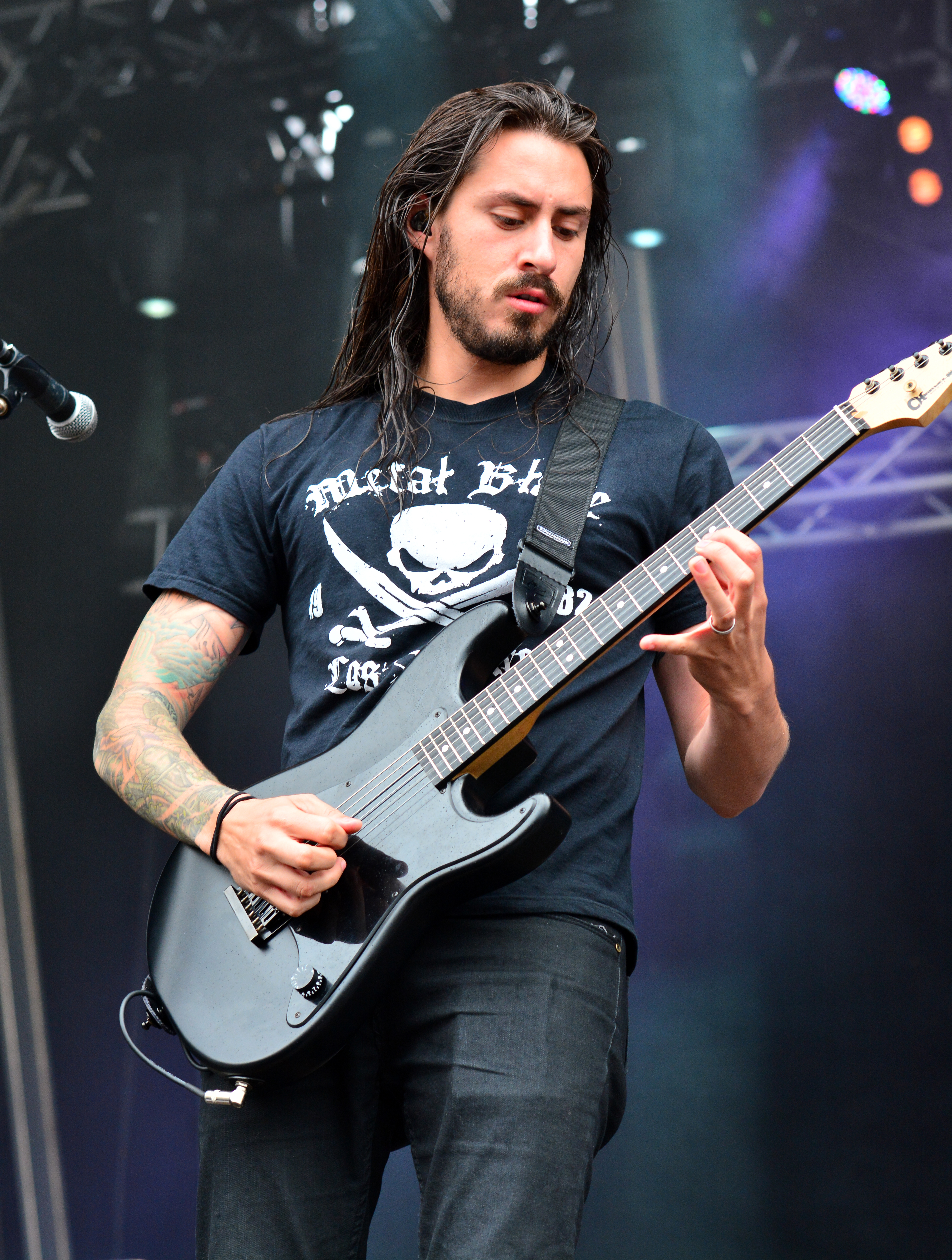 Guitarist Phil Sgrosso of Wovenwar performing at Elbriot 2014